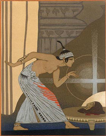 Salomé by Manuel Orazi